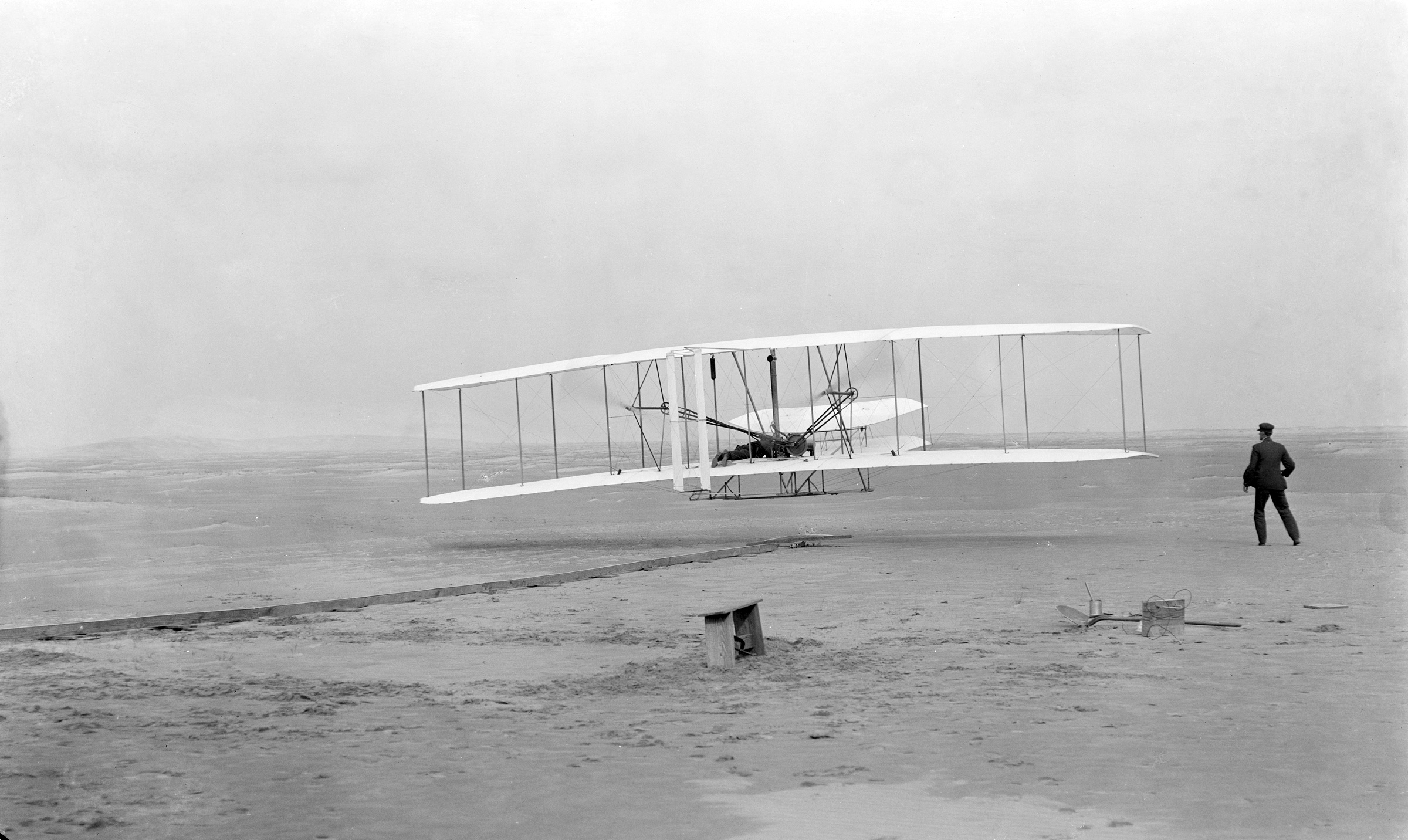 First successful flight of the Wright Flyer, by the Wright brothers. The machine traveled 120 ft (36.6 m) in 12 seconds at 10:35 a.m. on 17 December 1903 at Kitty Hawk, North Carolina. Orville Wright was at the controls of the machine, lying prone on the lower wing with his hips in the cradle which operated the wing-warping mechanism. Wilbur Wright ran alongside to balance the machine, and just released his hold on the forward upright of the right wing in the photo. The starting rail, the wing-rest, a coil box, and other items needed for flight preparation are visible behind the machine. This was considered "the first sustained and controlled heavier-than-air, powered flight" by the Fédération Aéronautique Internationale.